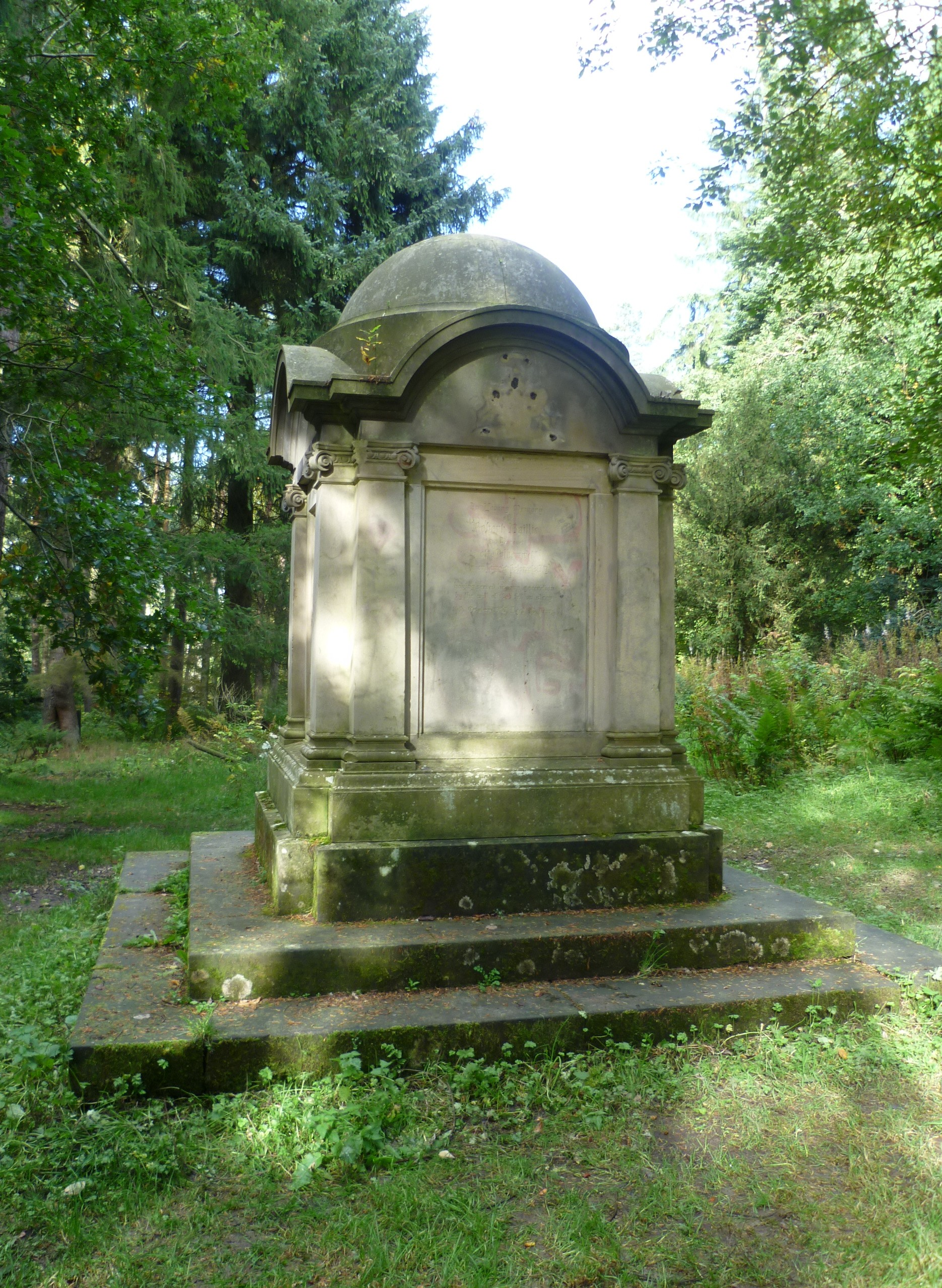 The mausoleum of Sir Adrian Baillie, 6th Baronet of Polkemmet who died in 1947 (the house was demolished by its later owner, the National Coal Board, in the 1960s).